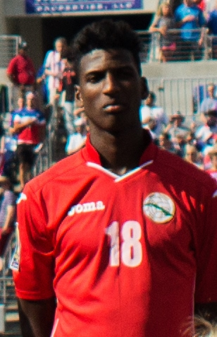 CONCACAF Quarter-Finals (USA vs Cuba) - Baltimore, MD (July 2015) Daniel Luís